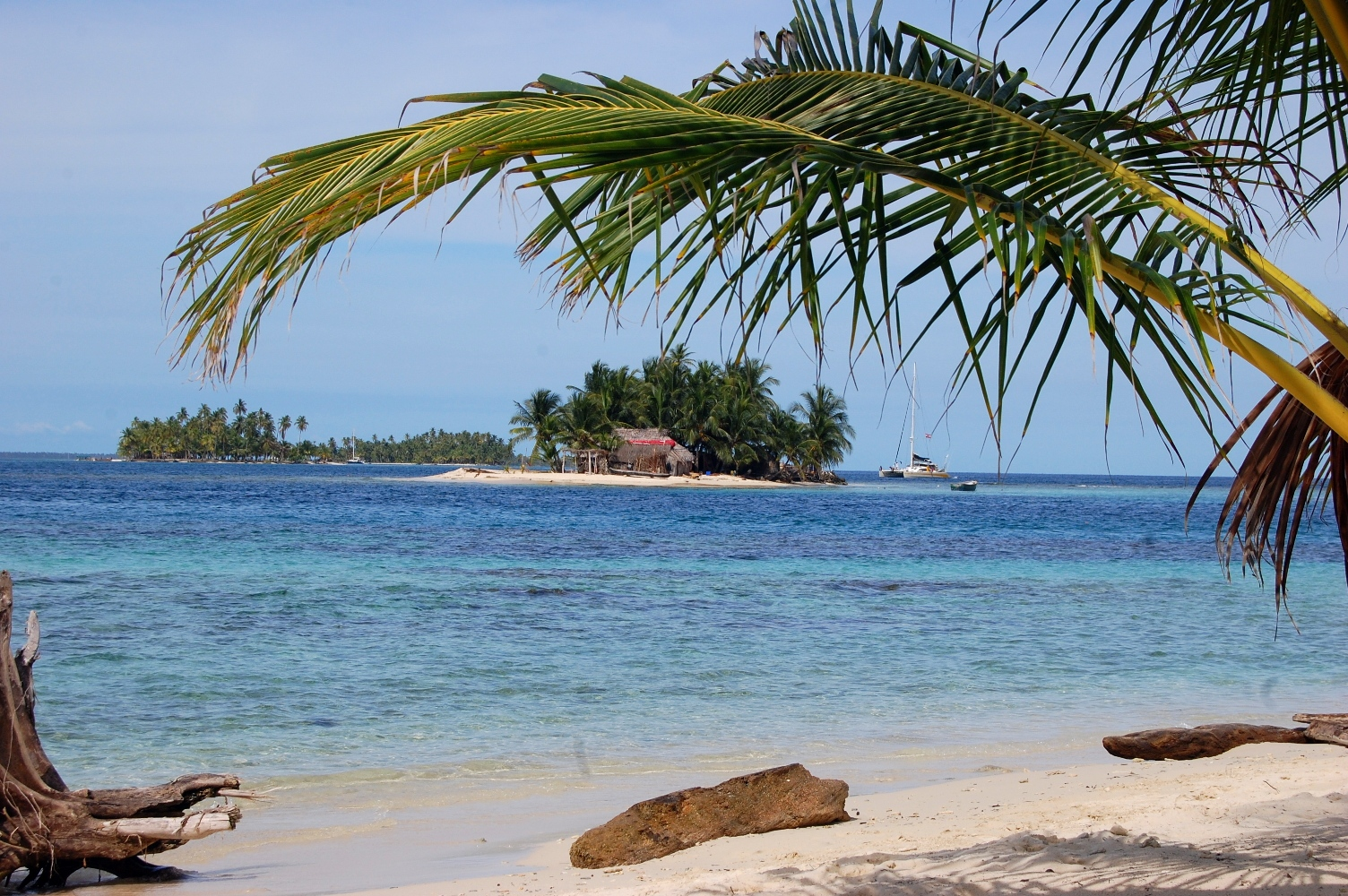 One of San Blas Islands in Kuna Yala region, Panama